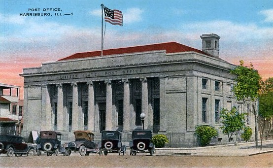 Harrisburg Post Office, postcard